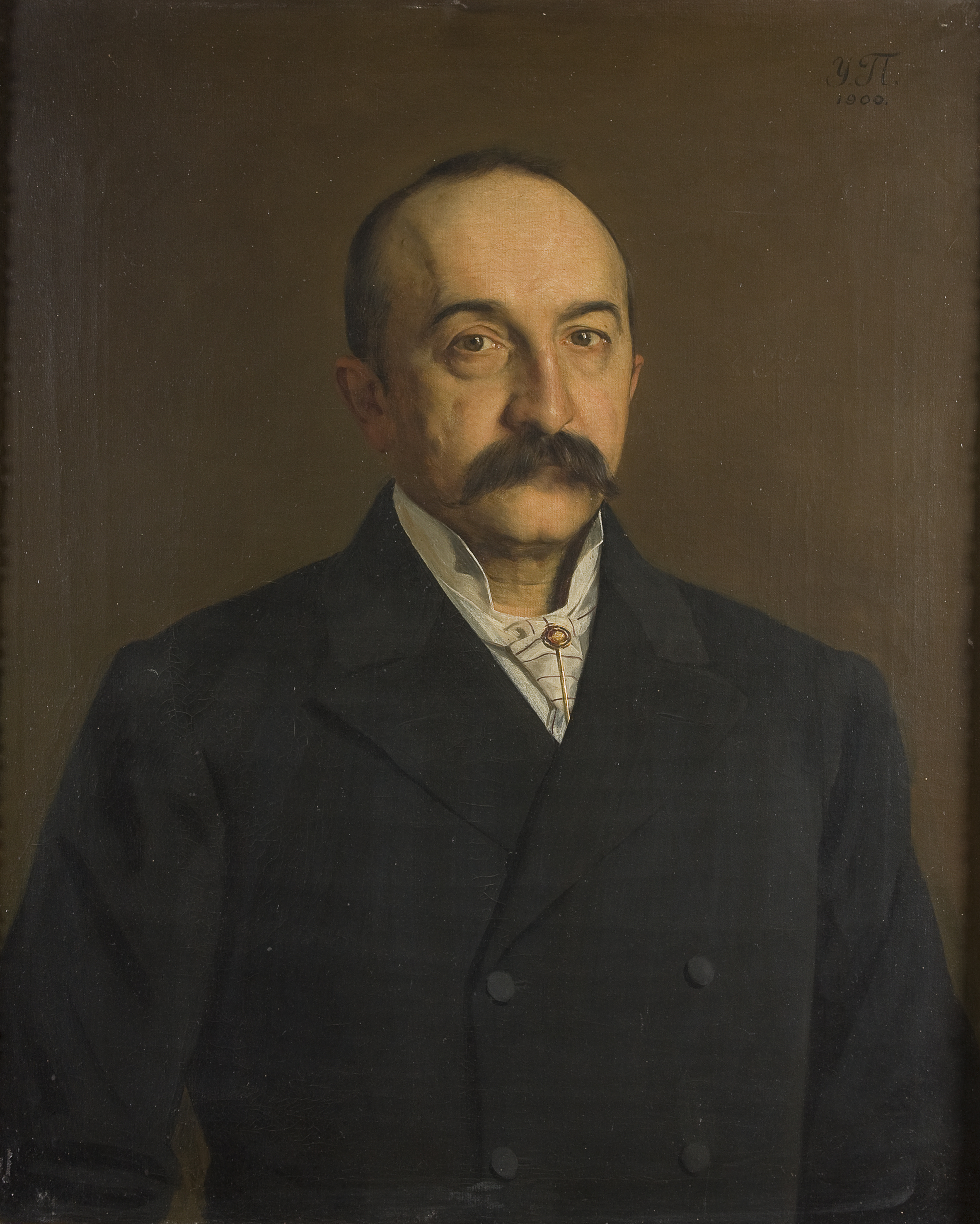 Milan Savić (Turska, Kanjiža, Austrougarska,1845 - Beograd,1930)